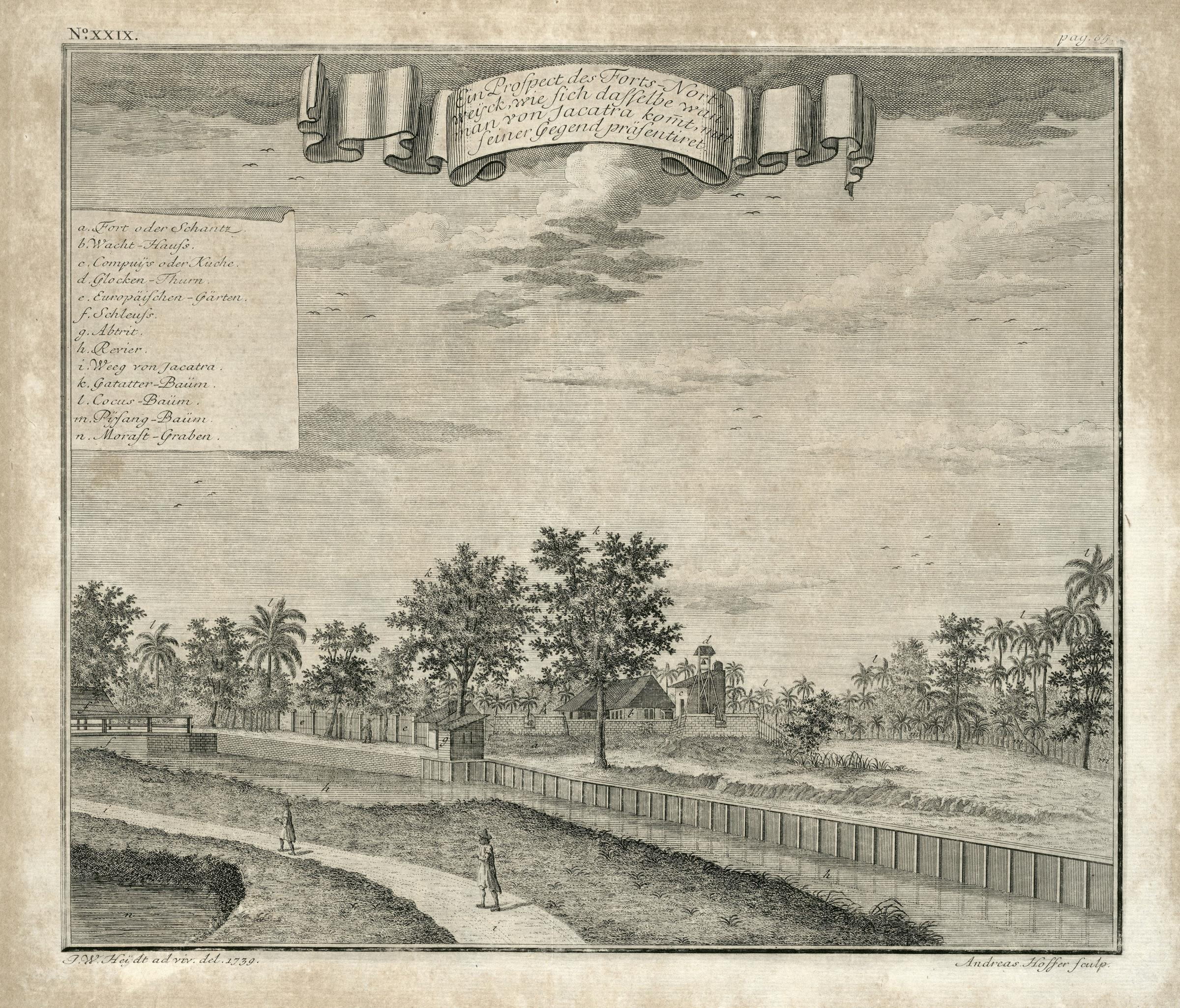 View of Noordwijk Fort. Ein Prospect des Forts-Nortweijck, wie sich dasselbe wan man von Jacatra komt, mit seiner Gegend präsentiret. Top left: No: XXIX.. Top right: pag. 85.. Key: a. Fort oder Schantz. / b. Wacht-Hauss. / c. Compuijs oder Kuche. / d. Glocken-Thurm. / e. Europäischen-Gärten. / f. Schleuss. / g. Abtrit. / h. Revier. / i. Weeg von Jacatra. / k. Gatatter-Baüm. / l. Cocus-Baüm. / m. Pijsang-Baüm. / n. Morast-Graben.. Cf. Rijksmuseum, inv. nr. RP-P-1908-2313.